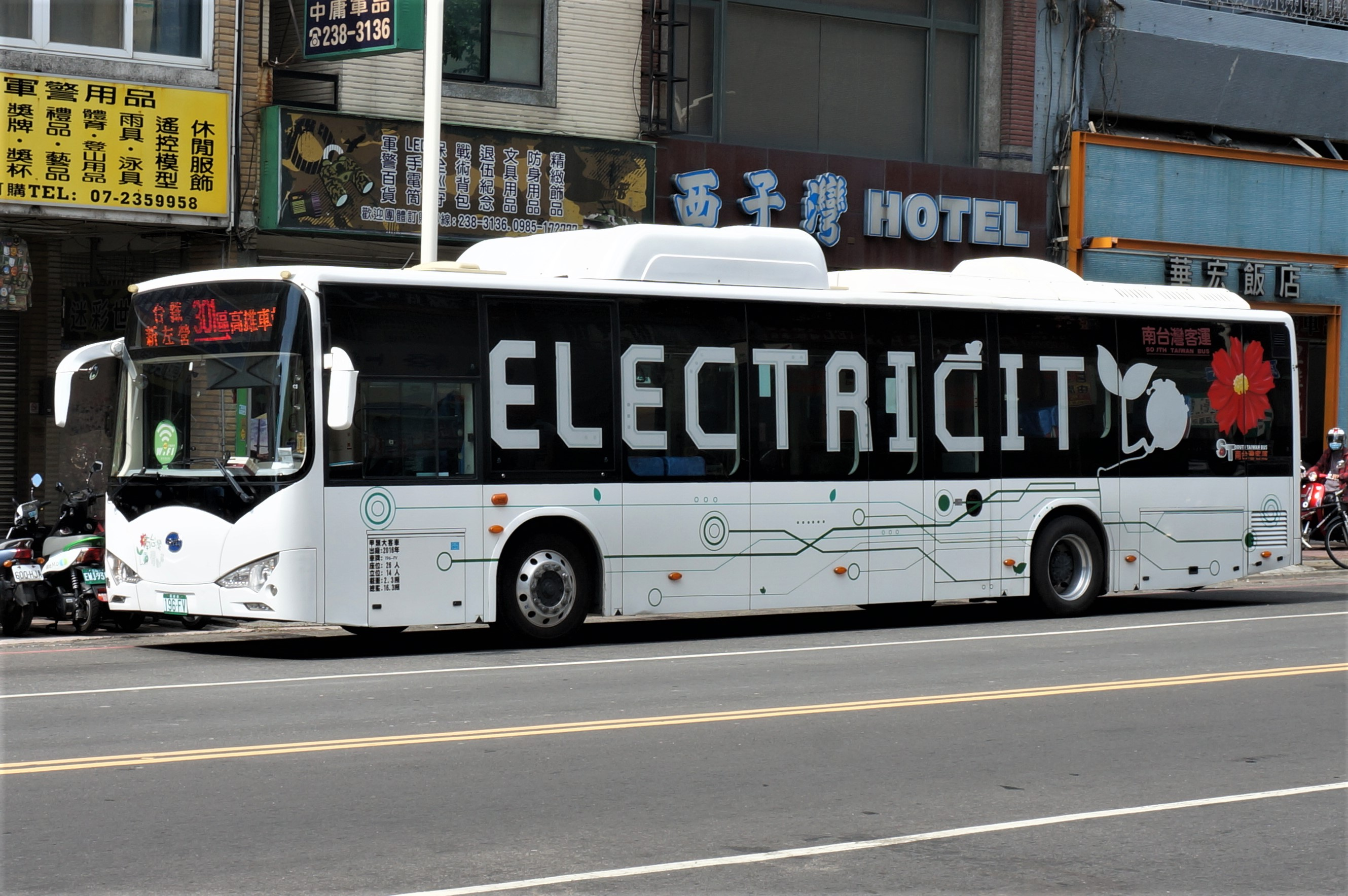 South Taiwan Bus BYD K9 196-FV